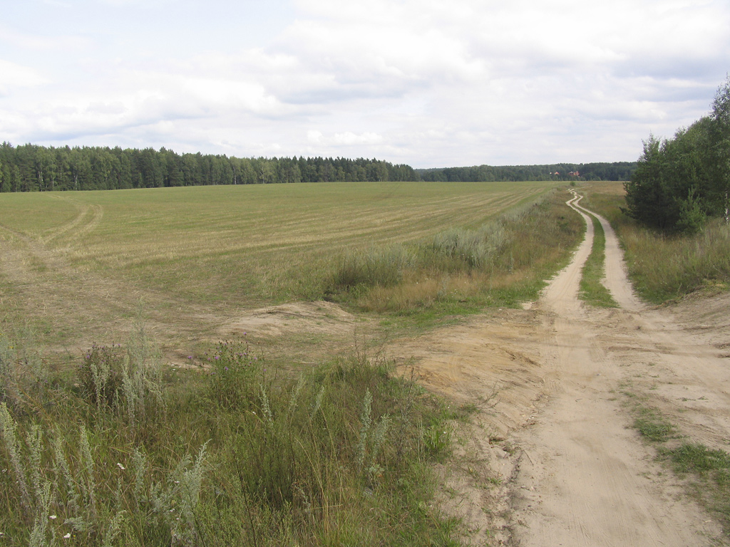 Fields in Moscow Oblast (Region) near Noginsk author - lite